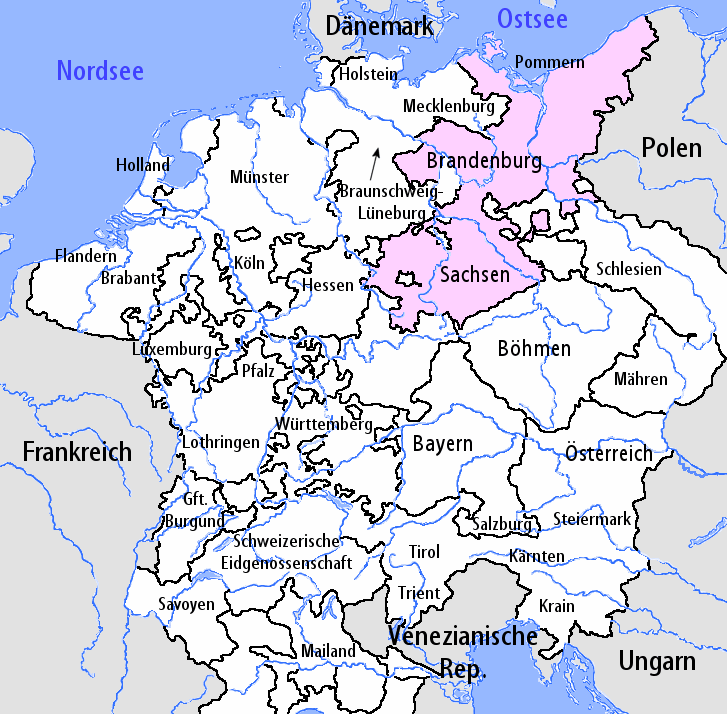 I am the author of this image file. Its contents are based in part on a map published in the "Historical Atlas" by Prof. William R Shepherd, pub. Henry Holt & Co. (New York, 1911). Image:Upper Saxon Circle-2005-10-14-en.png